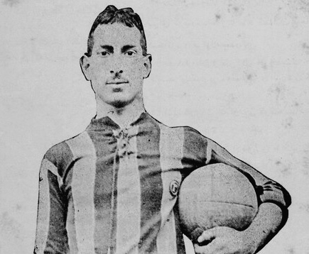 Galip Kulaksizoglu in 1911-1912